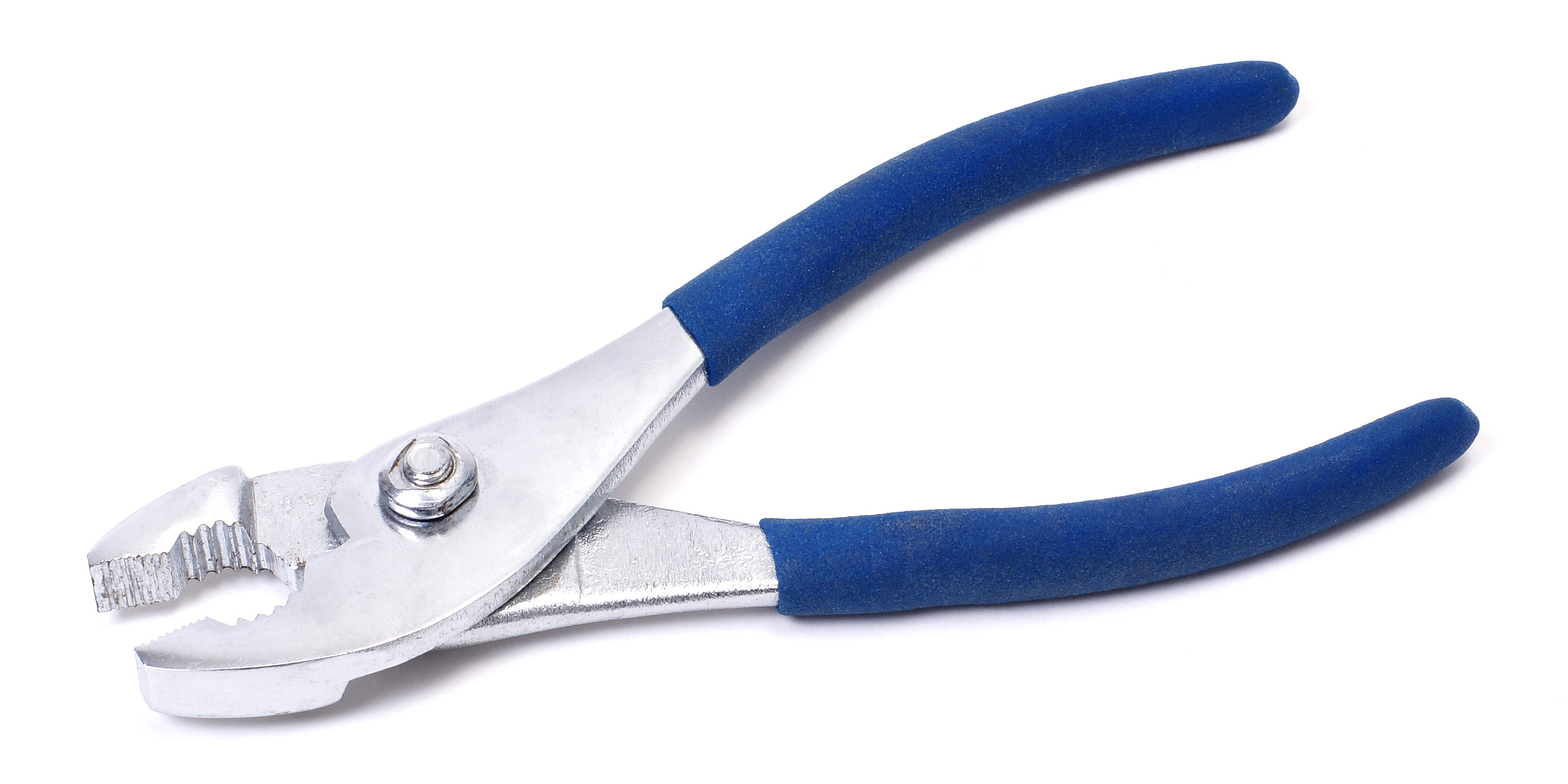 Flat-nosed pliers.